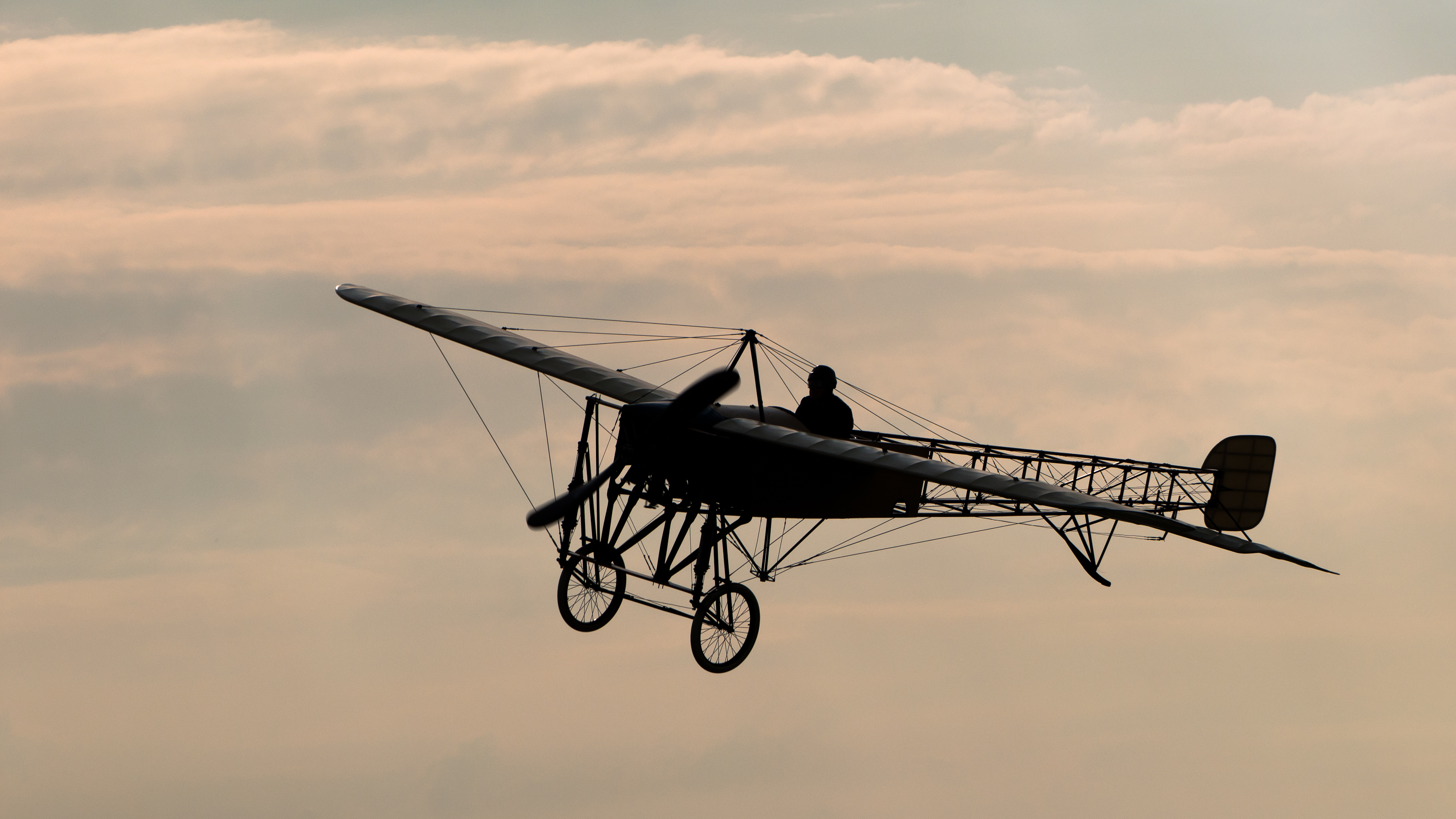 Mikael Carlson's Blériot XI/Thulin A 1910 (first takeoff after restoration: 1991, 7-cylinder Gnôme-Omega 50 hp rotary engine).